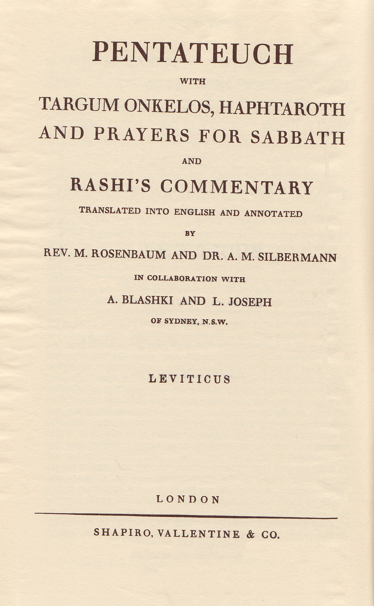 Pentateuch with Targum Onkelos, Haphtaroth and Prayers for Sabbath and Rashi‘s Commentary. Translated into English and Annotated by Rev. M. Rosenbaum and Dr. A. M. Silbermann in collaboration with A[aron] Blashki and L[ouis] Joseph of Sydney, N.S.W. The Australian scholar Aaron Blashki spearheaded Rashi´s Translation; therefore this Torah Edition is called »The Blashki Chumash« in Australia, elsewhere it is known as The Silbermann Rashi. It was first published in Australia between 1929 and ´34.